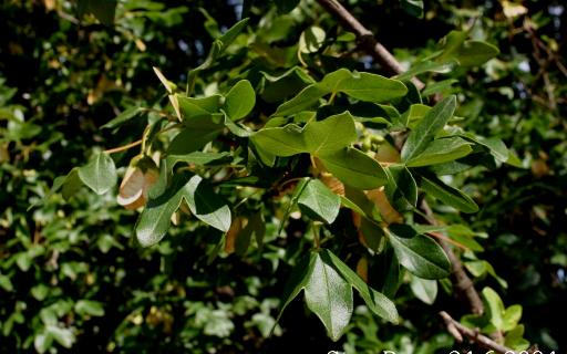 Acer monspessulanum leaves and fruits. Photo from Olmi-Cappella in Corsica.